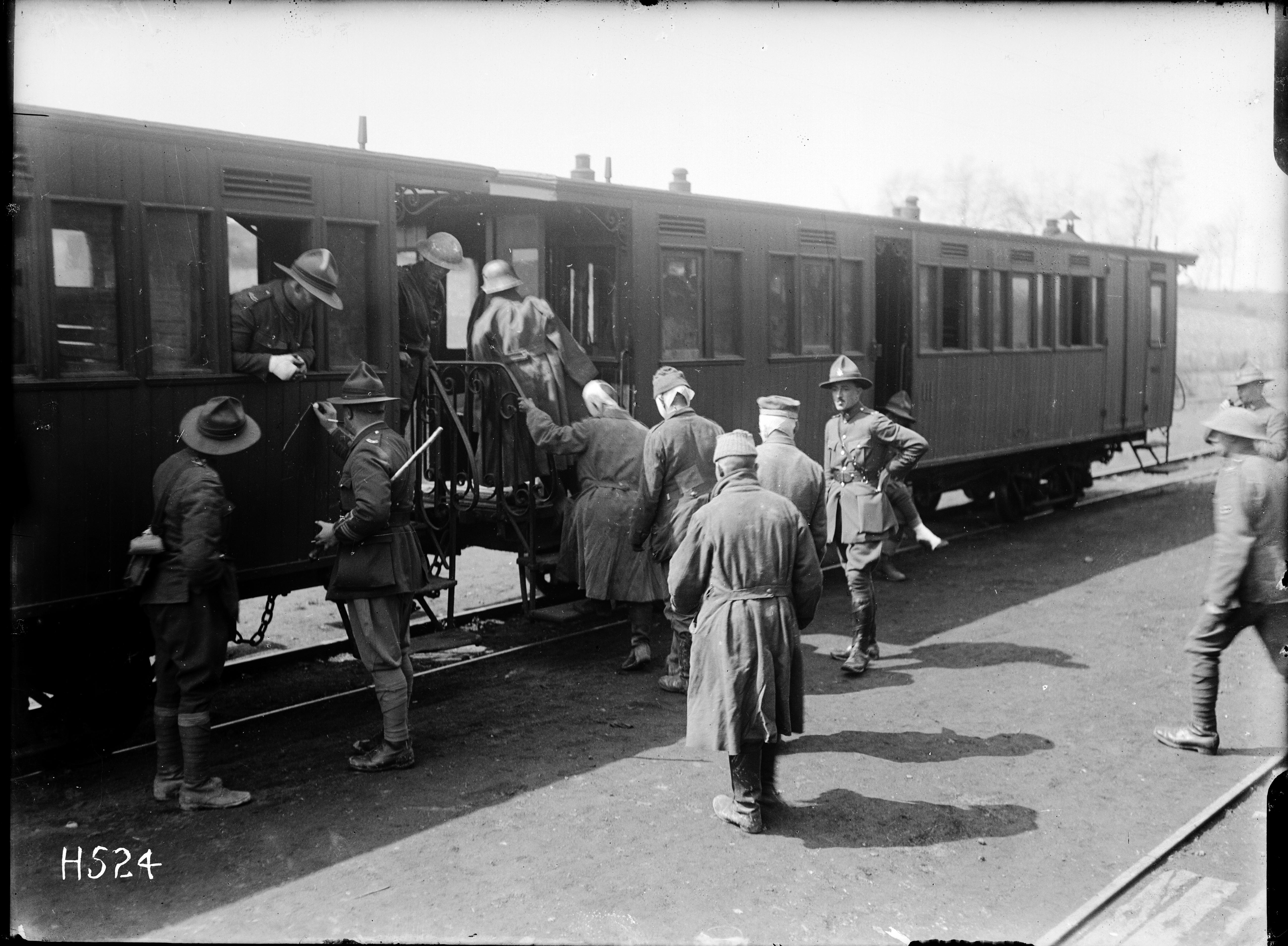 Wounded German prisoners boarding a train under New Zealand Army supervision during World War I. Photograph taken 22 April 1918 by Henry Armytage Sanders. Inscriptions: Inscribed - Photographer's title on negative -bottom left: H524. Quantity: 1 b&w original negative(s). Physical Description: Dry plate glass negative 4.75 x 6.5 inches Wounded German prisoners boarding a train, Louvencourt, France. Royal New Zealand Returned and Services' Association :New Zealand official negatives, World War 1914-1918. Ref: 1/2-013142-G. Alexander Turnbull Library, Wellington, New Zealand.